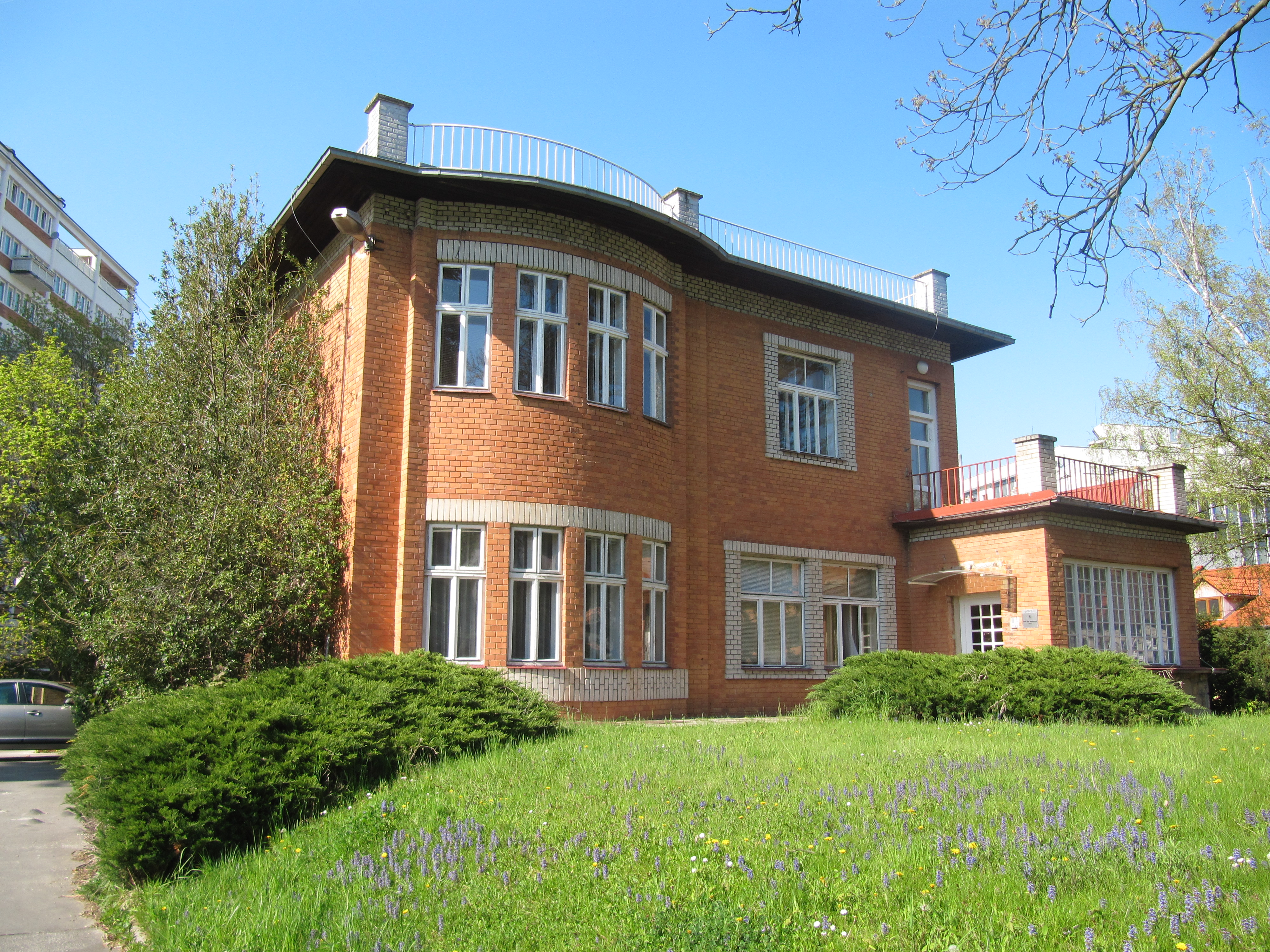 Zlín, Czech Republic, Osvoboditelů street 18, former villa of Jan Antonín Bata, now the seat of the Czech Radio, studios Zlín. Early modernist building from the years 1926-1927, designed by František Lydie Gahura, built by Zlamal and Placek.